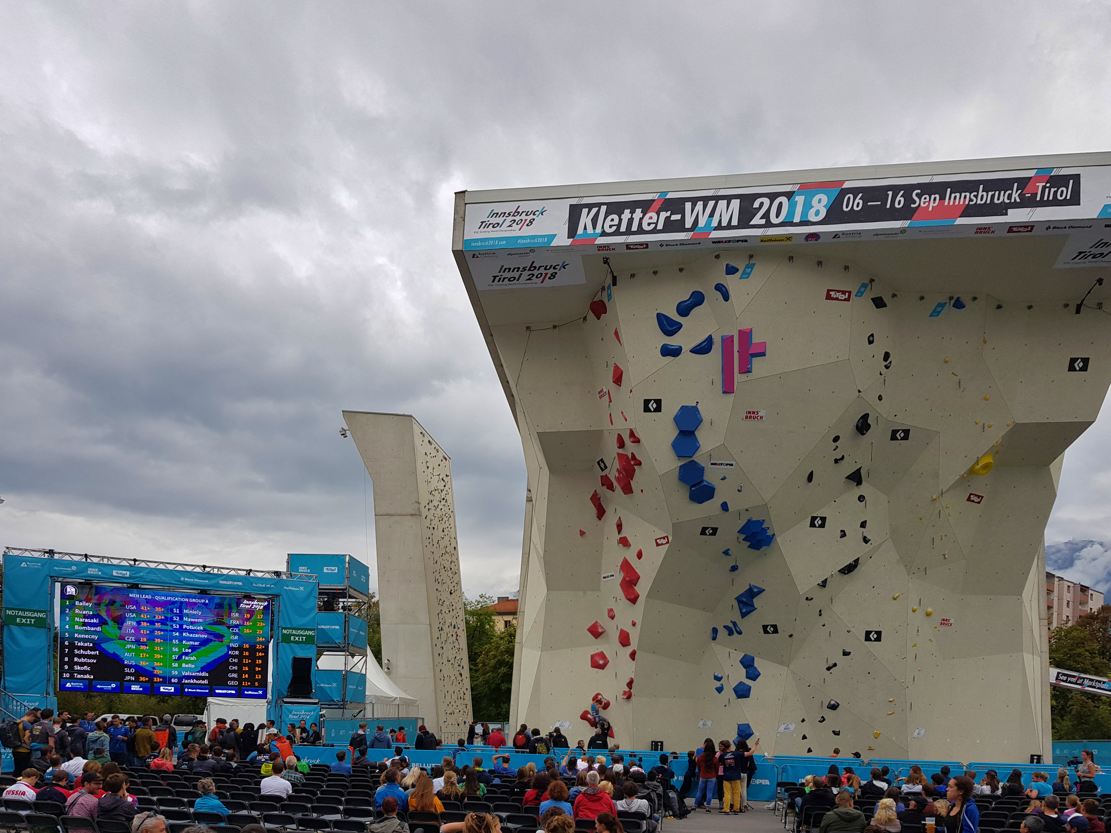 IFSC Climbing World Championships Innsbruck 2018 Qualification MEN lead